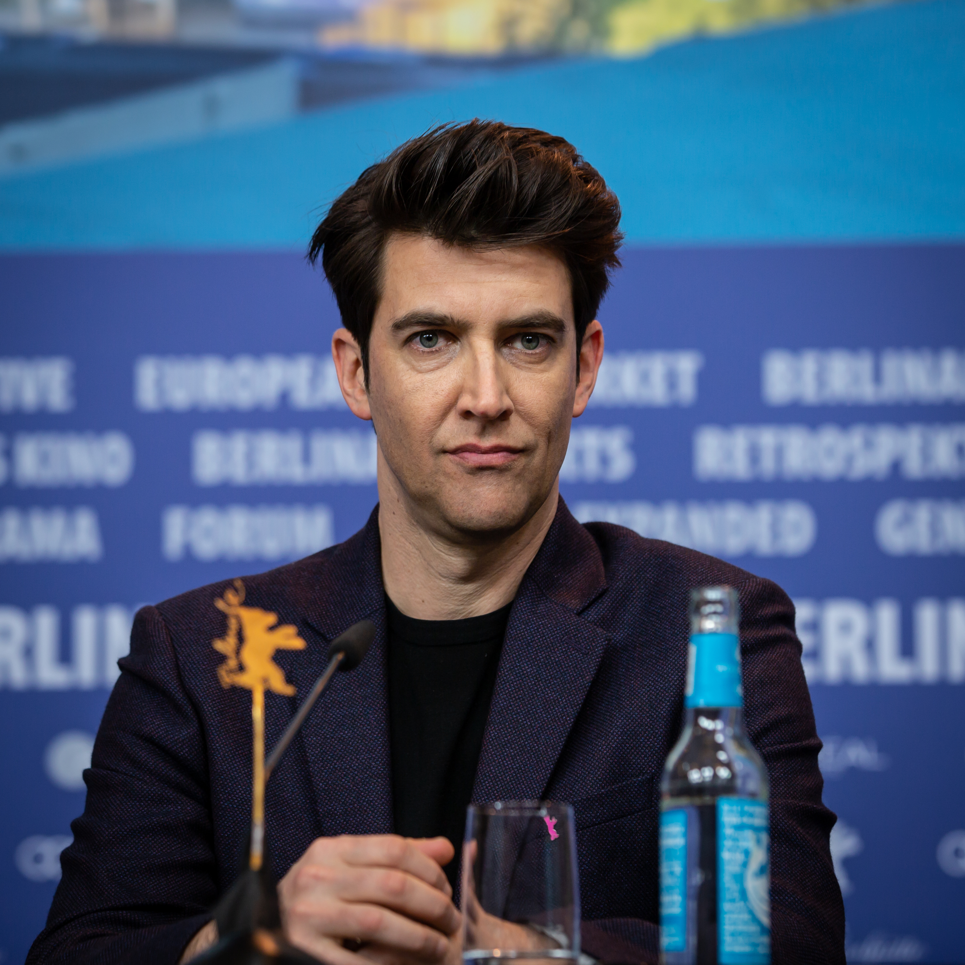 Film director Guy Nattiv at the Berlinale 2019